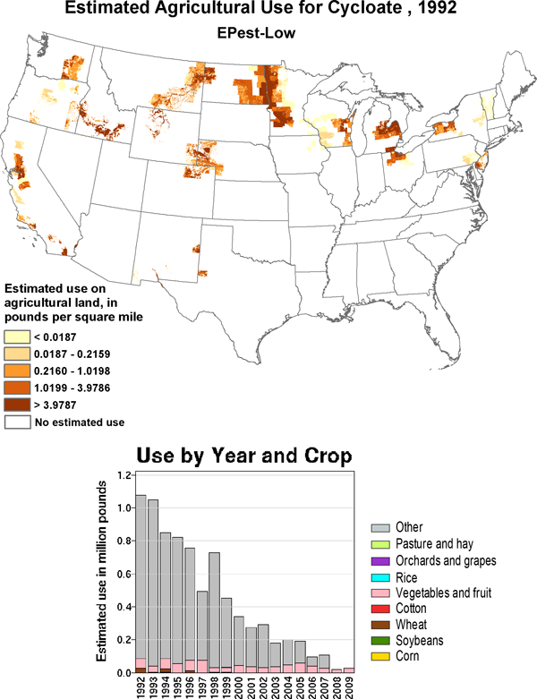 Cycloate map of use, USA, 1992 (estimated)